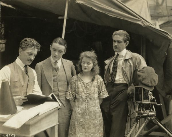 The actors, cameraman, and director discuss the script on location for the American silent film Sunshine Alley (Goldwyn, 1917). From left to right are the director John W. Noble, actors Robert Harron and Mae Marsh, and the cameraman George W. Hill.